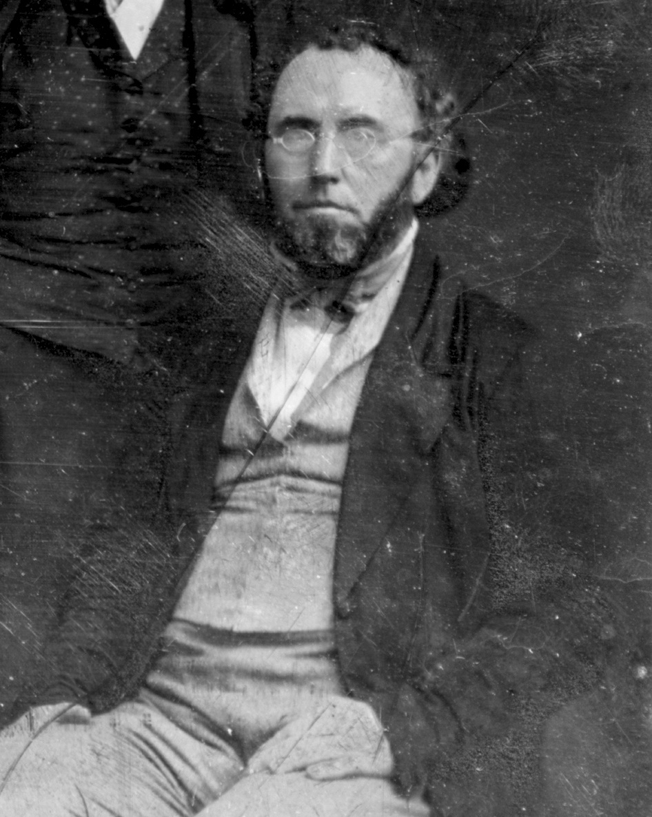 George Ripley, literary editor of the New York Tribune.